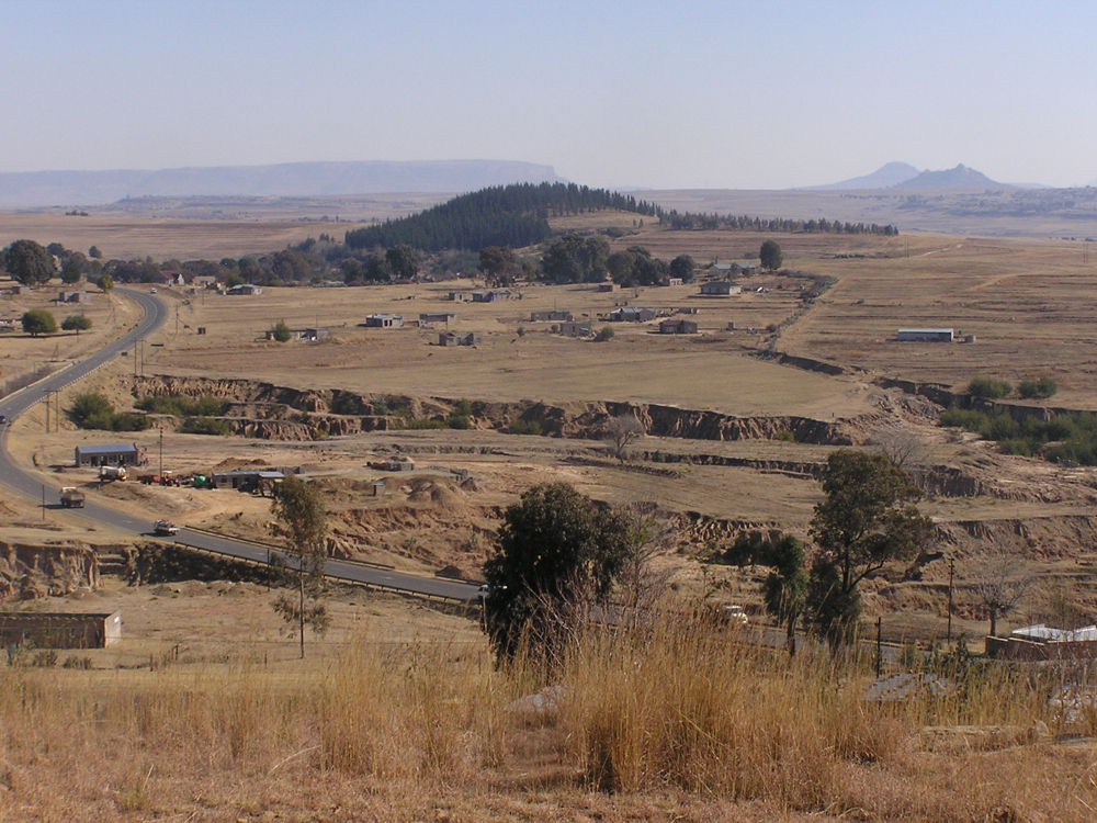 Highway B31 in rural Masreu District seen from Thaba Bosiu Plateau